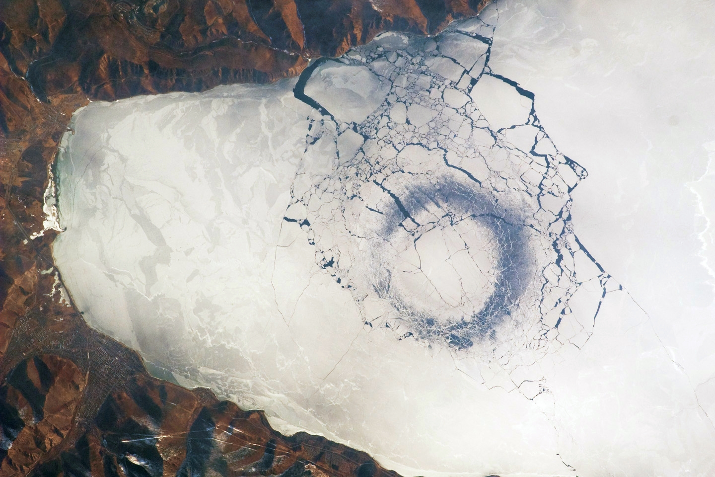 This image, a detailed astronaut photograph, shows a circle of thin ice (dark in color, with a diameter of about 4.4 kilometers); this is the focal point for ice break up in the very southern end of the lake.